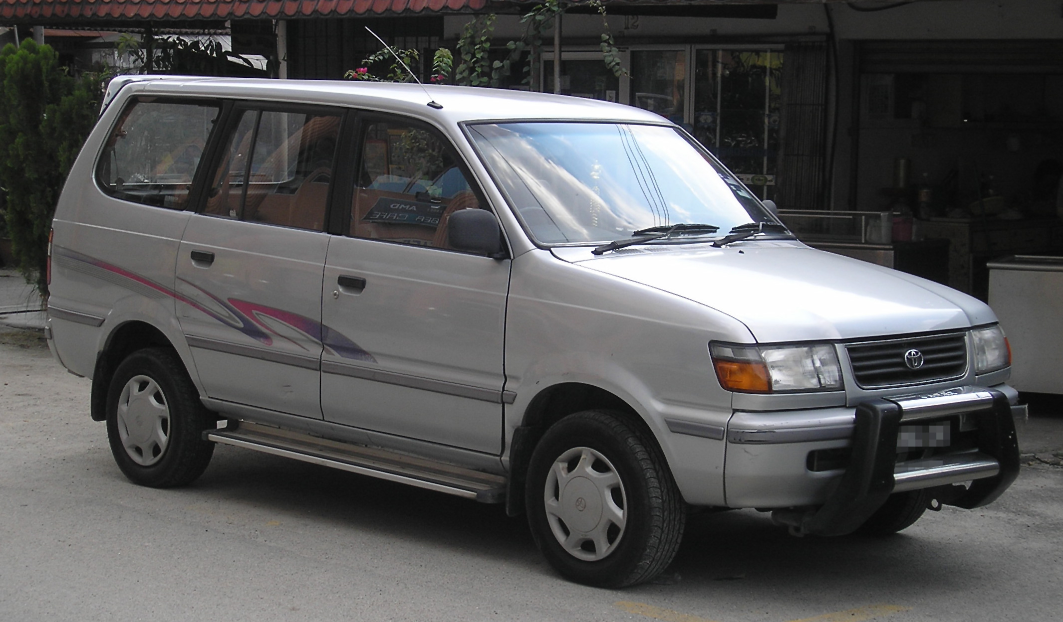 The front of a fifth generation Toyota Unser, in Kajang, Selangor, Malaysia.